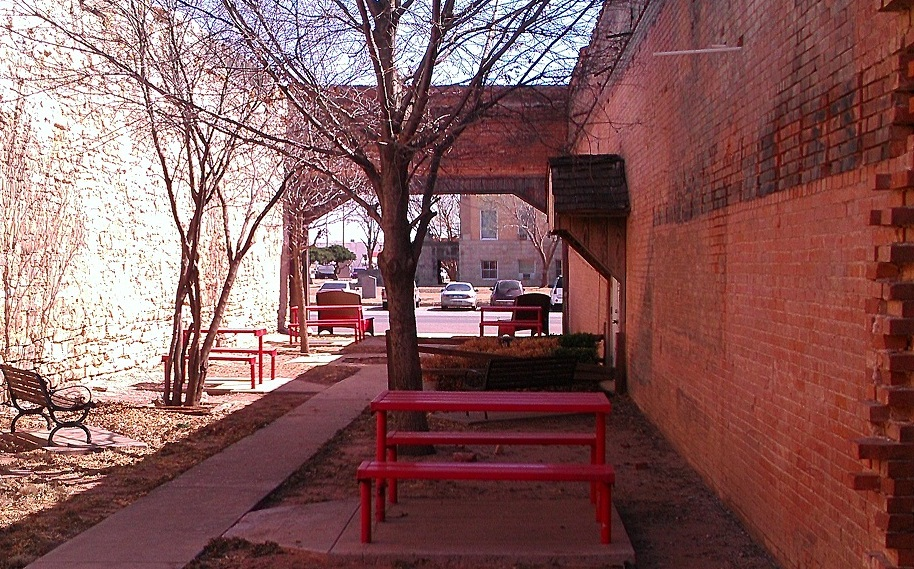 Park in Crowell, Texas west of the Foard County Courthouse.